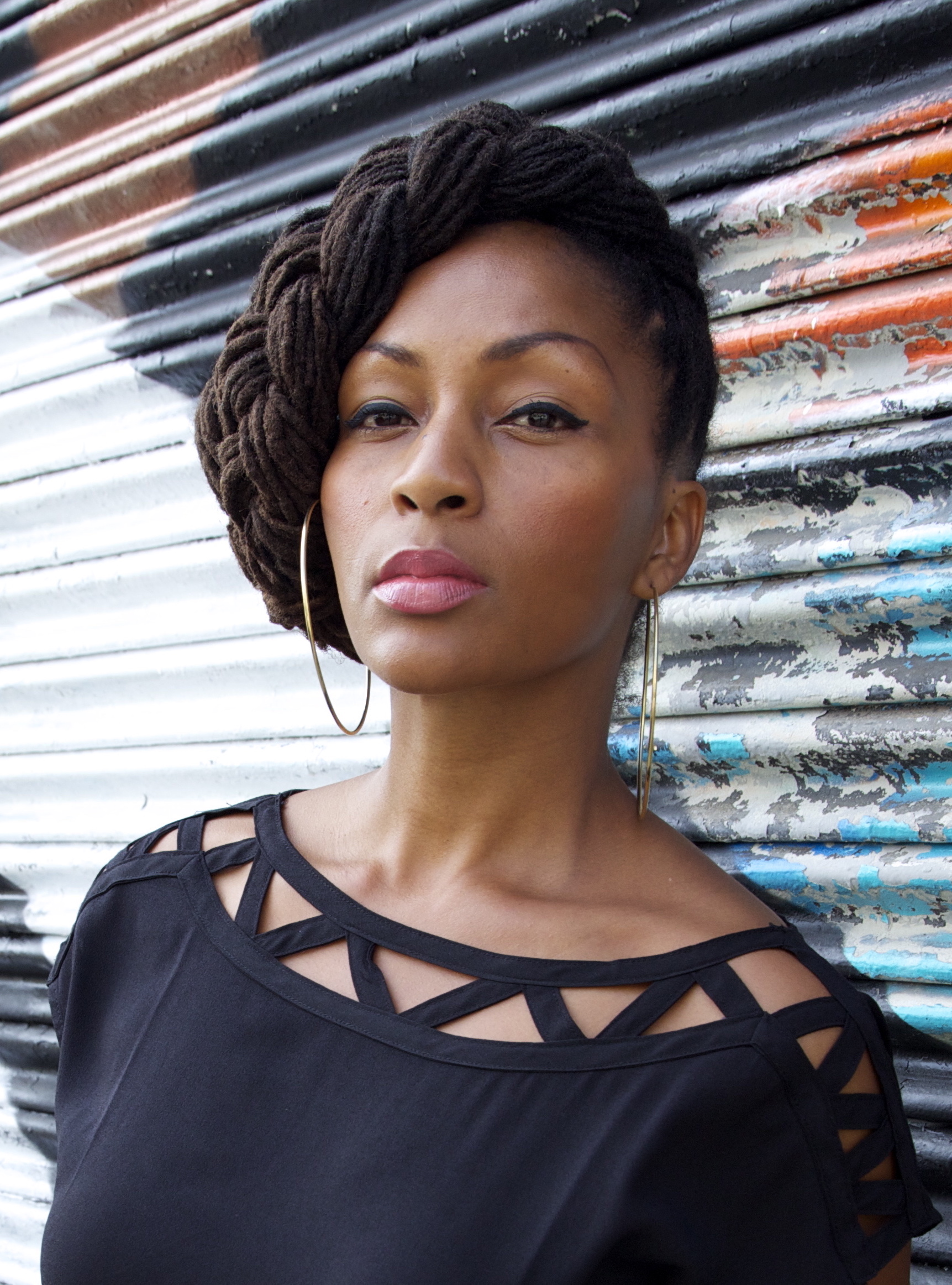 Amana headshot